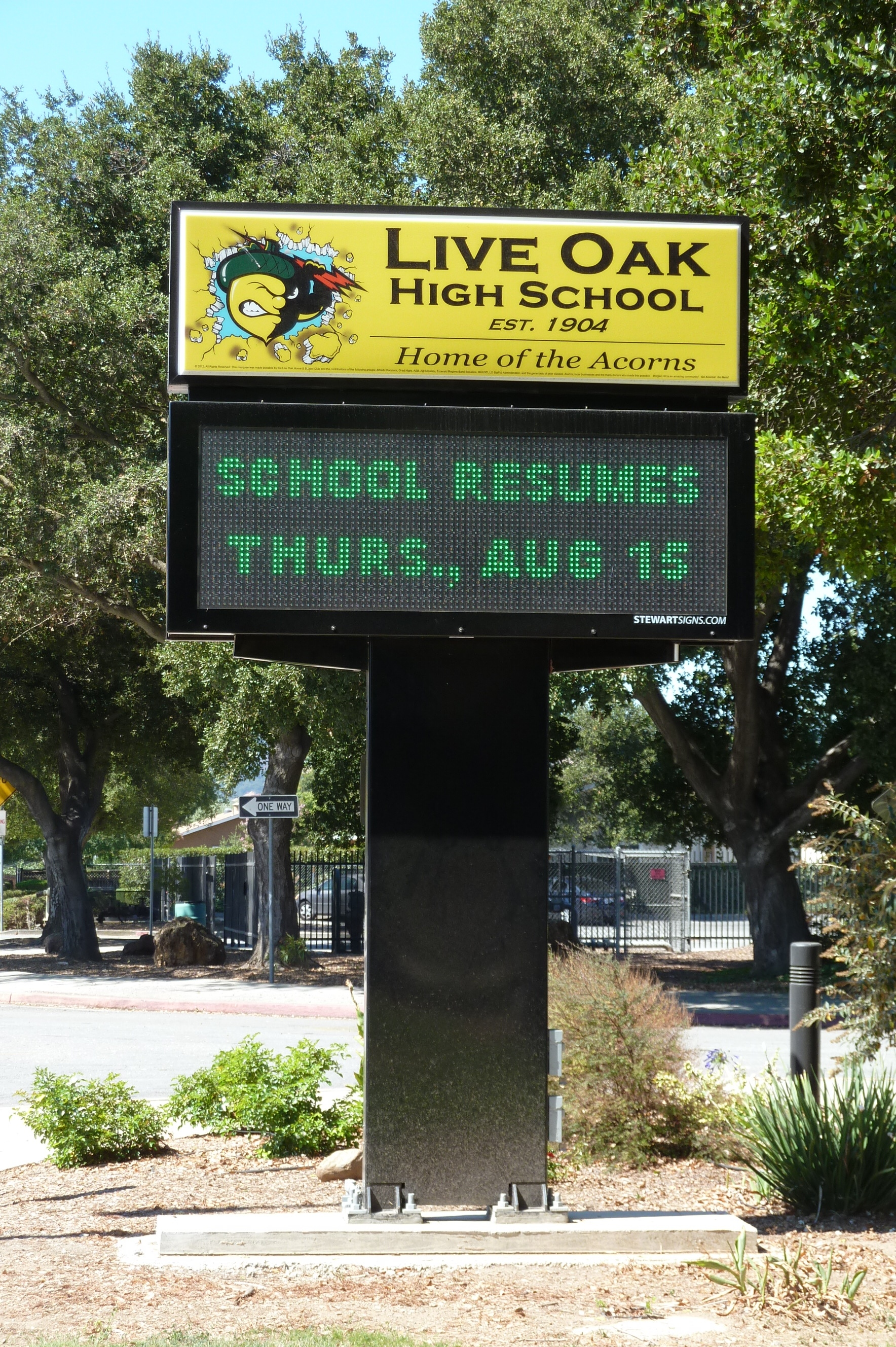 Live Oak High School electronic signboard, Morgan Hill, California, just before the start of the 2013-2014 school year. Vantage point was on East Main Avenue, looking westward. This campus of Live Oak High School was built in the early 1970s, first occupied in the summer of 1975, and is not the original 1904 location of the school.